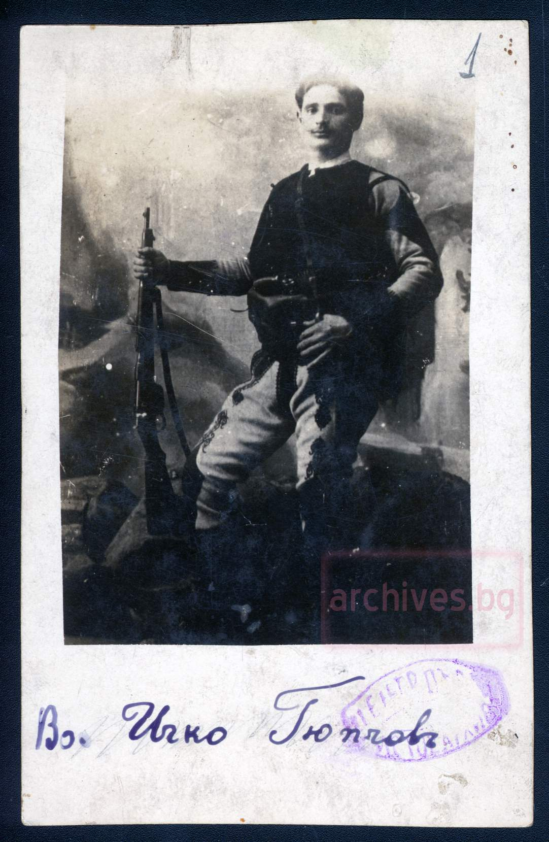 United cheti of IMARO of Delcho Kotsev, Petar Samardzhiev, Hristo Chernopeev, captain Trenev, Nikola Zhekov, Panayot Baychev